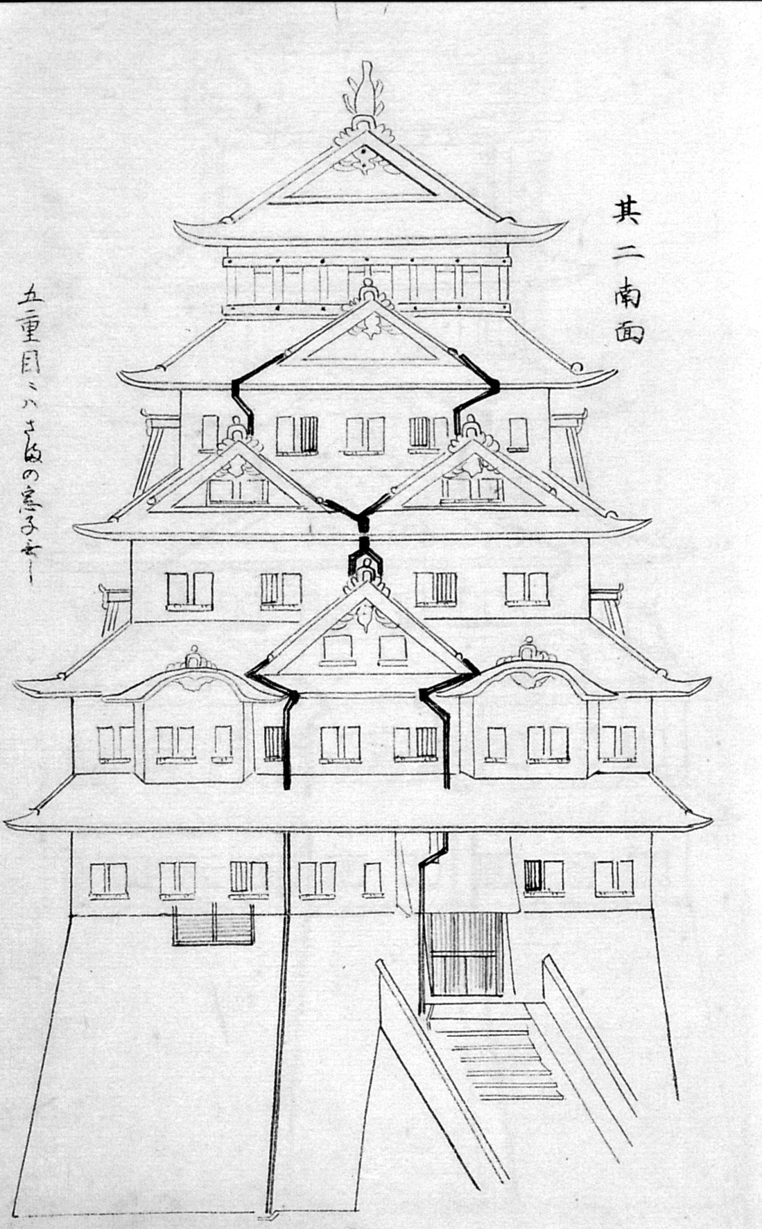 Sketch of Nagoya castler tower